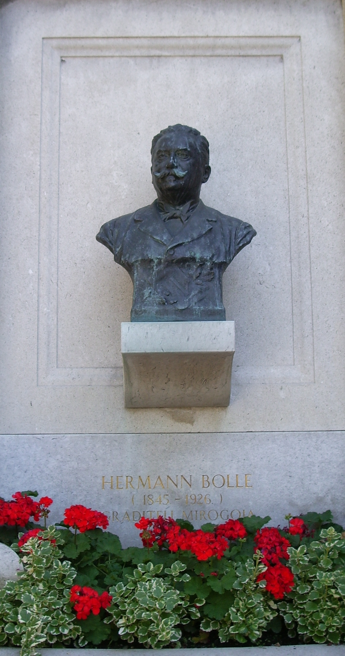 Bust of Hermann Bollé on Mirogoj graveyard entrance.